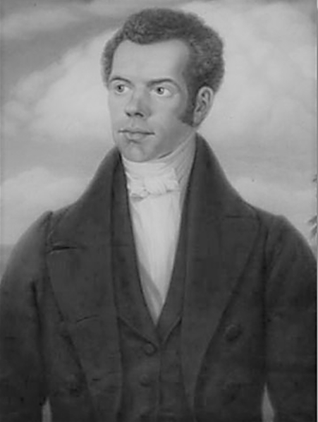 Digitized and graphically treated portrait of Thomas Birch Freeman (1809 -1890)